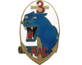 Regimental badge of the 3rd Coloniale Artillery Regiment.